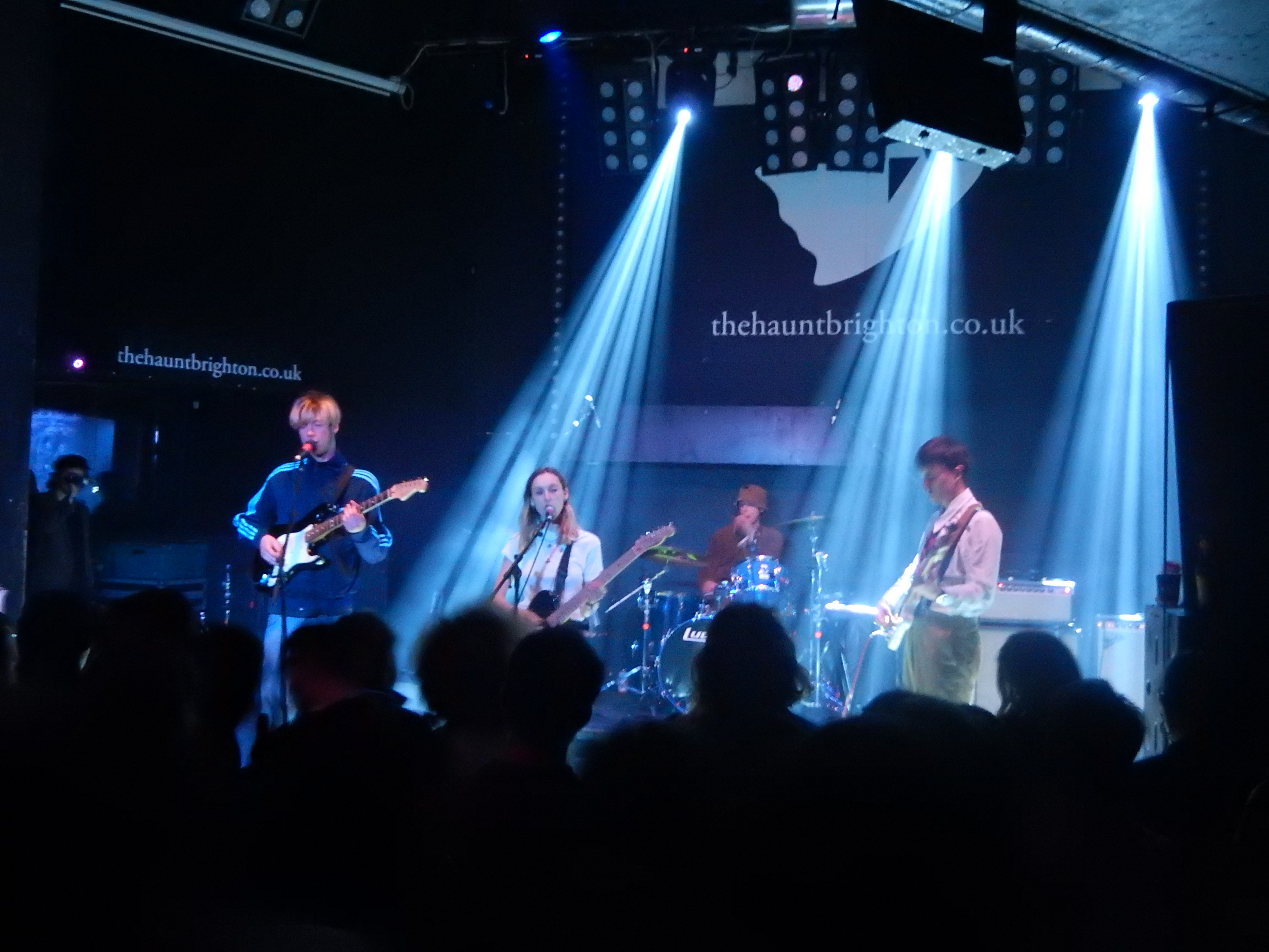 Sorry, The Haunt, Brighton (Great Escape 2018)